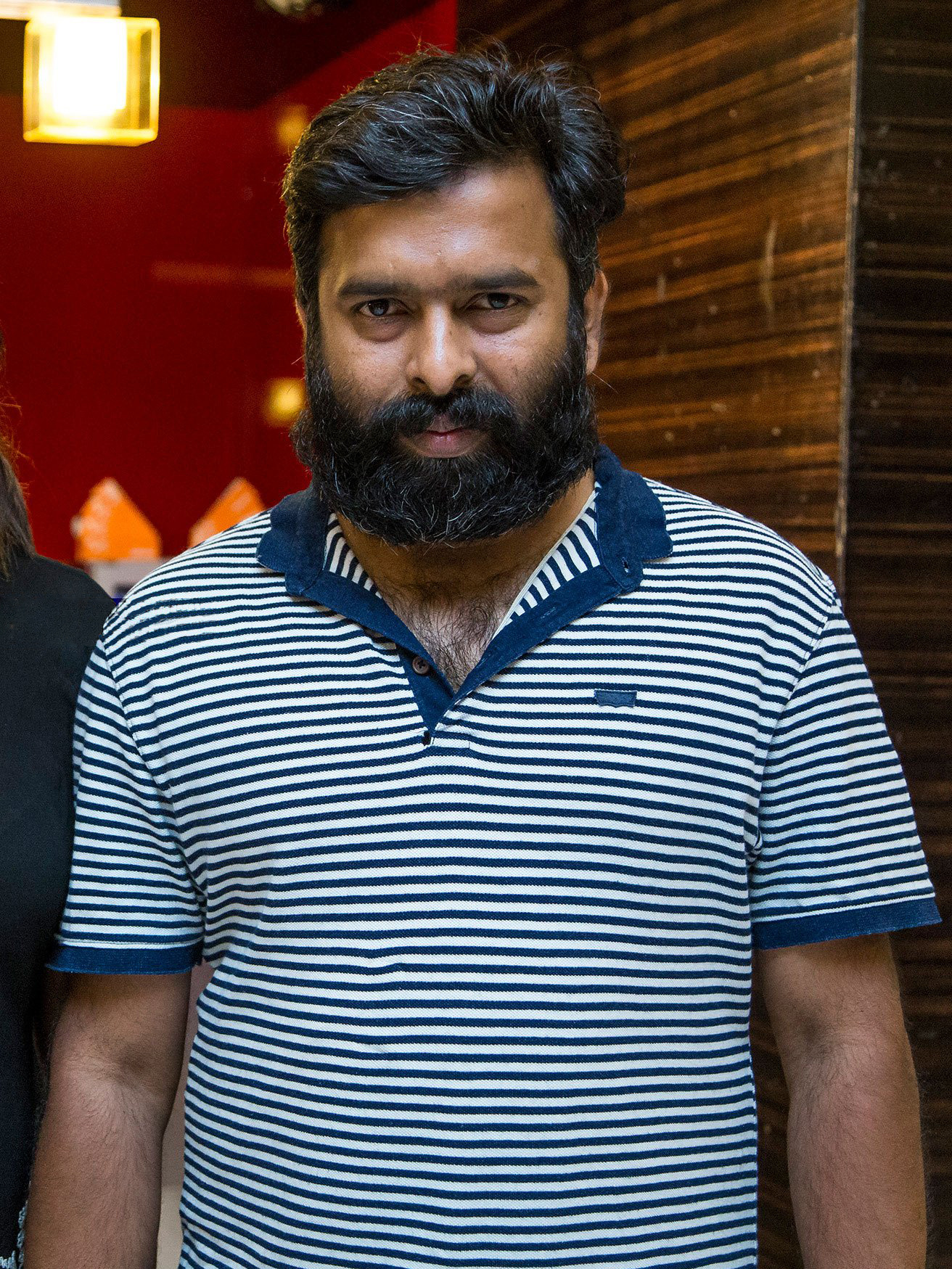 Santhosh Narayanan and his Wife Meenakshi Iyer at ‘Kadugu’ Movie Premiere